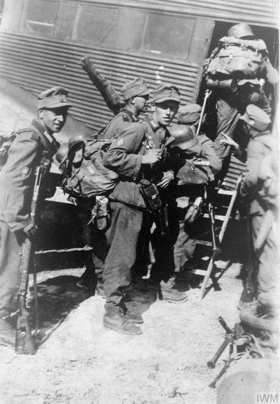 German mountain troops of the 5th Gebirgs-Division boarding a Junkers 52 at a Greek airfield, before flying to Crete, 20 May 1941. On that morning 3000 German paratroops landed at Maleme, Rethymno, Chania and Heraklion.